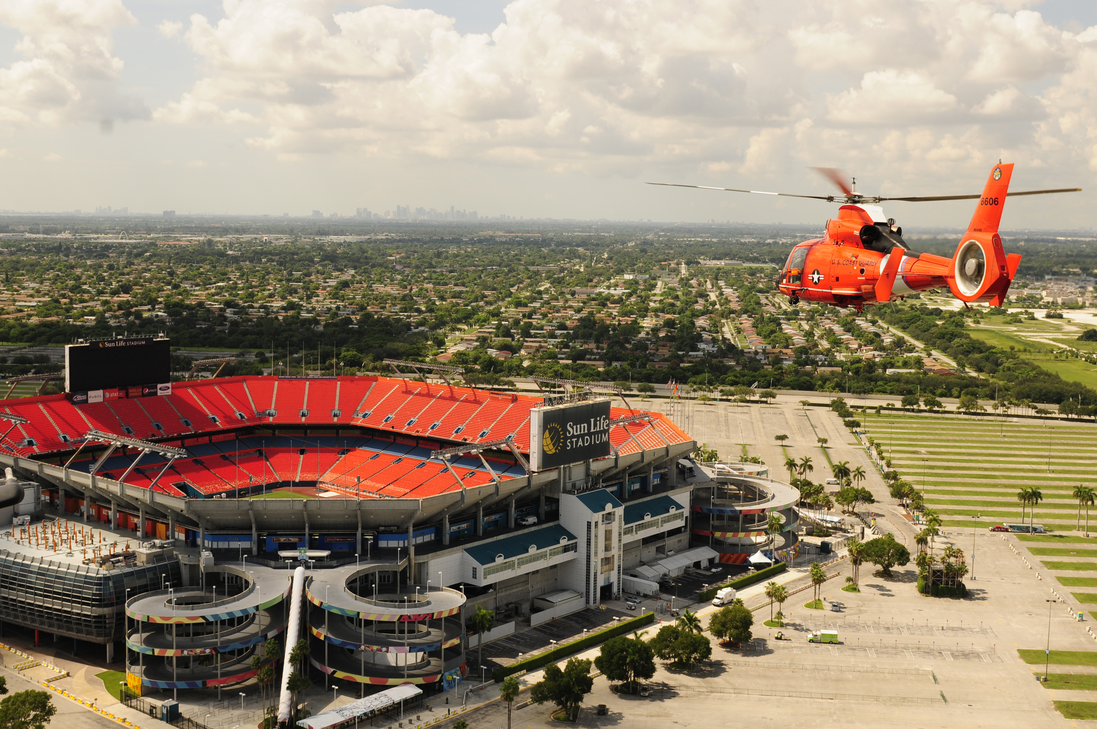 A Coast Guard Air Station Miami MH-65 Dolphin helicopter crew conducts a practice fly over of Sun Life Stadium Aug. 3, 2011.